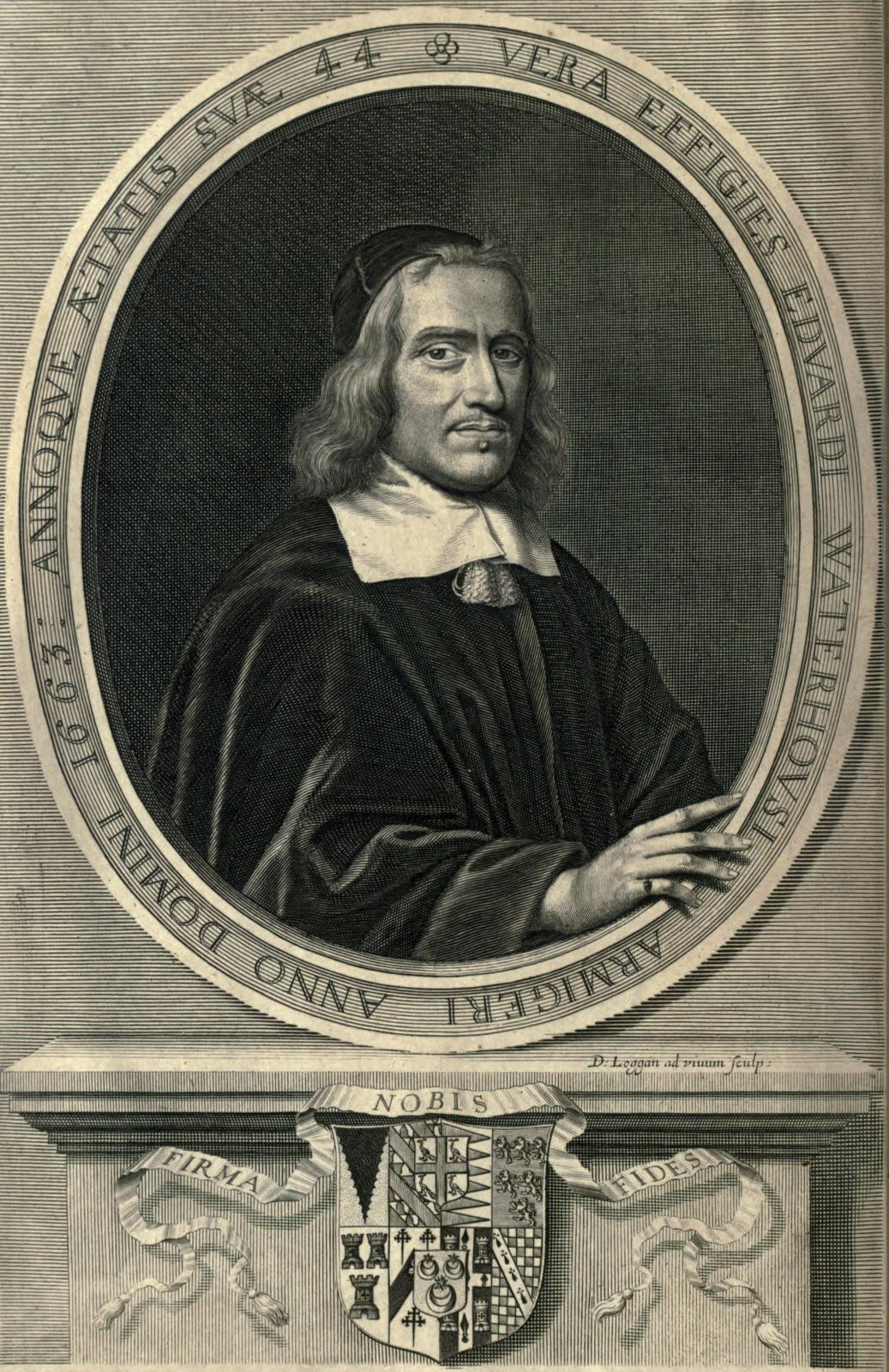 Portrait of Edward Waterhouse (1619–1670), the author of Fortescutus Illustratus, or a Commentary on that Nervous Treatise De Laudibus Legum Angliæ (1663). This book was a commentary on John Fortescue's work De Laudibus Legum Angliæ (Concerning the Praises of the Laws of England, first published posthumously in 1543), an influential treatise on English law.